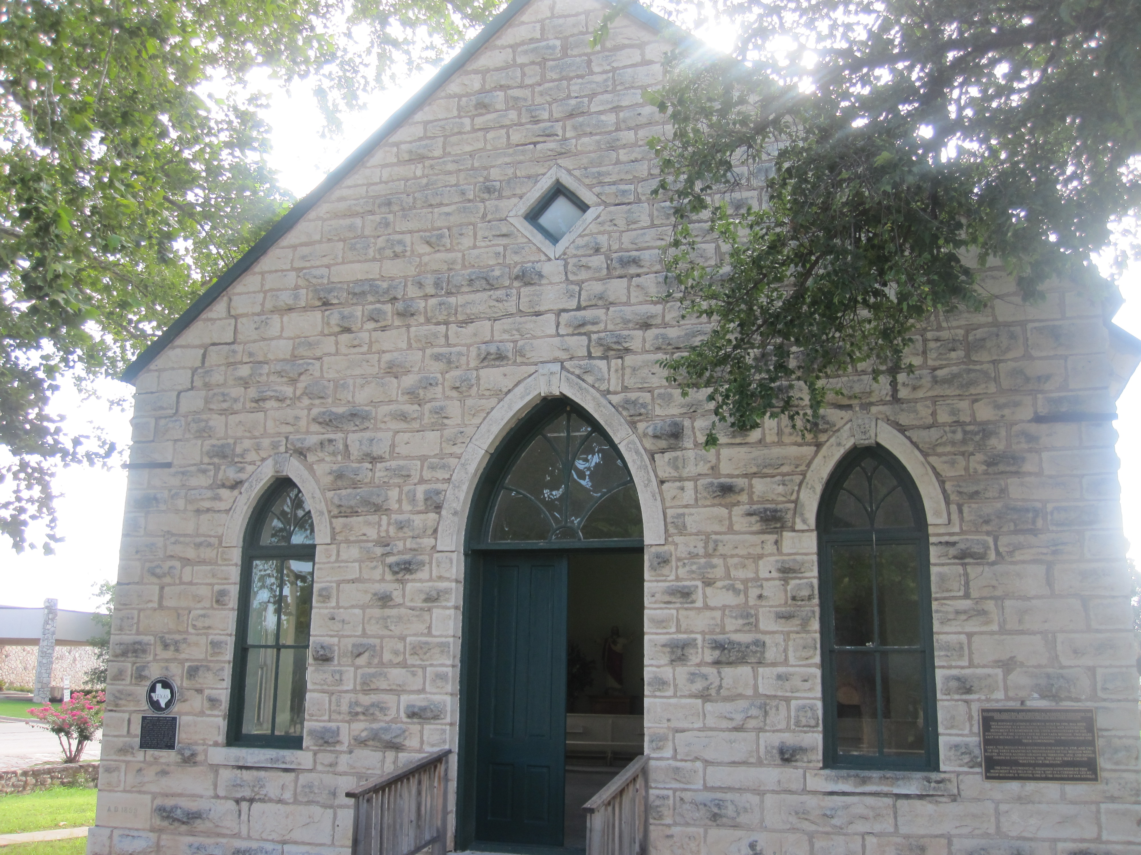 I took photo with Canon camera in Menard, TX.